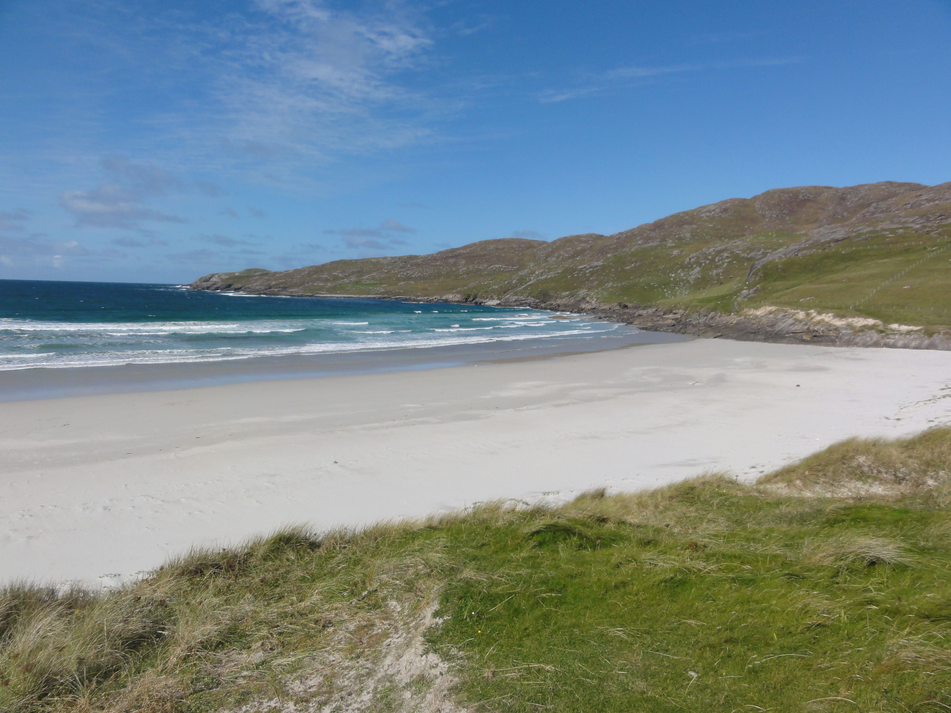 Photographs taken at Vatersay.